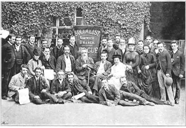 Norwich Branch of The Socialist League